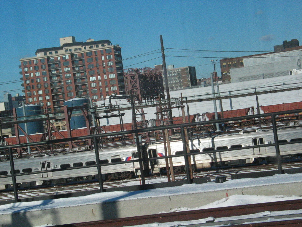 NJT Arrow III train among the leads to Hoboken Terminal